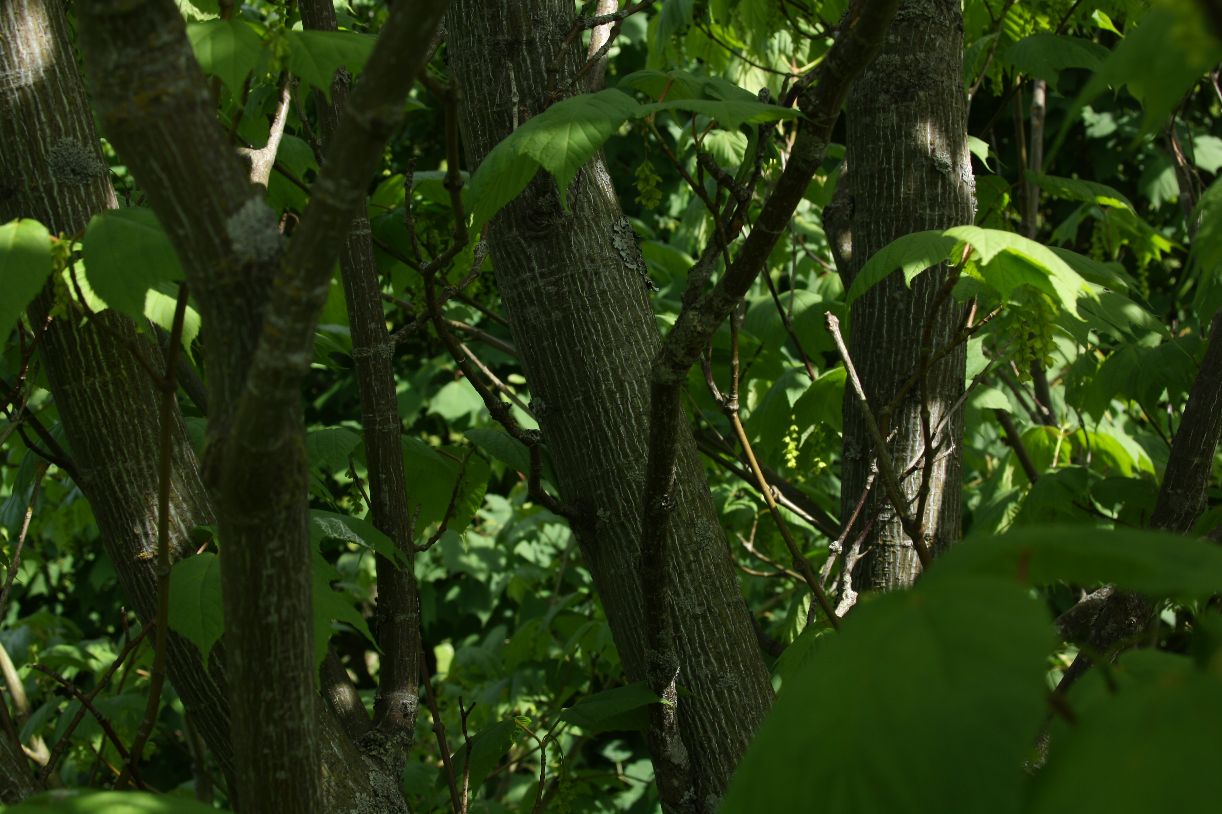 Bark of Snakebark Maple (Acer pensylvanicum), Botanical garden of Tallinn, Estonia